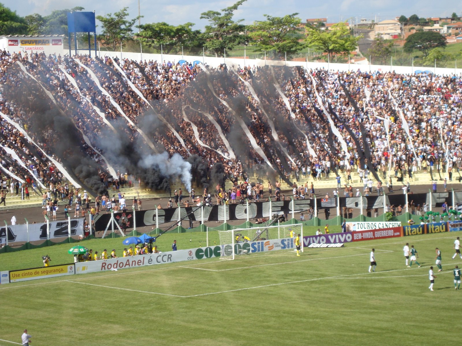 Stadium Prudentão on departure from Corinthians x Palmeiras, Paulista cameponato by 2009.